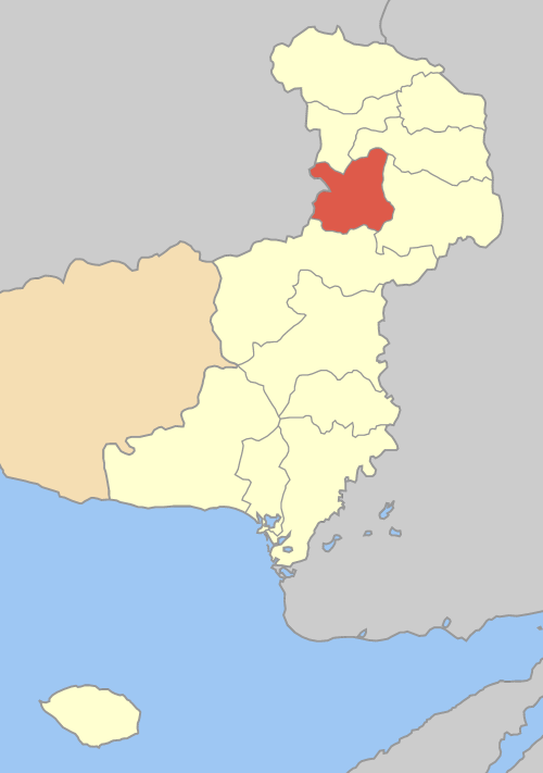 Locator map of Metaxades municipality (Δήμος Μεταξάδων) in Evros prefecture (Νομός Έβρου) in Greece.